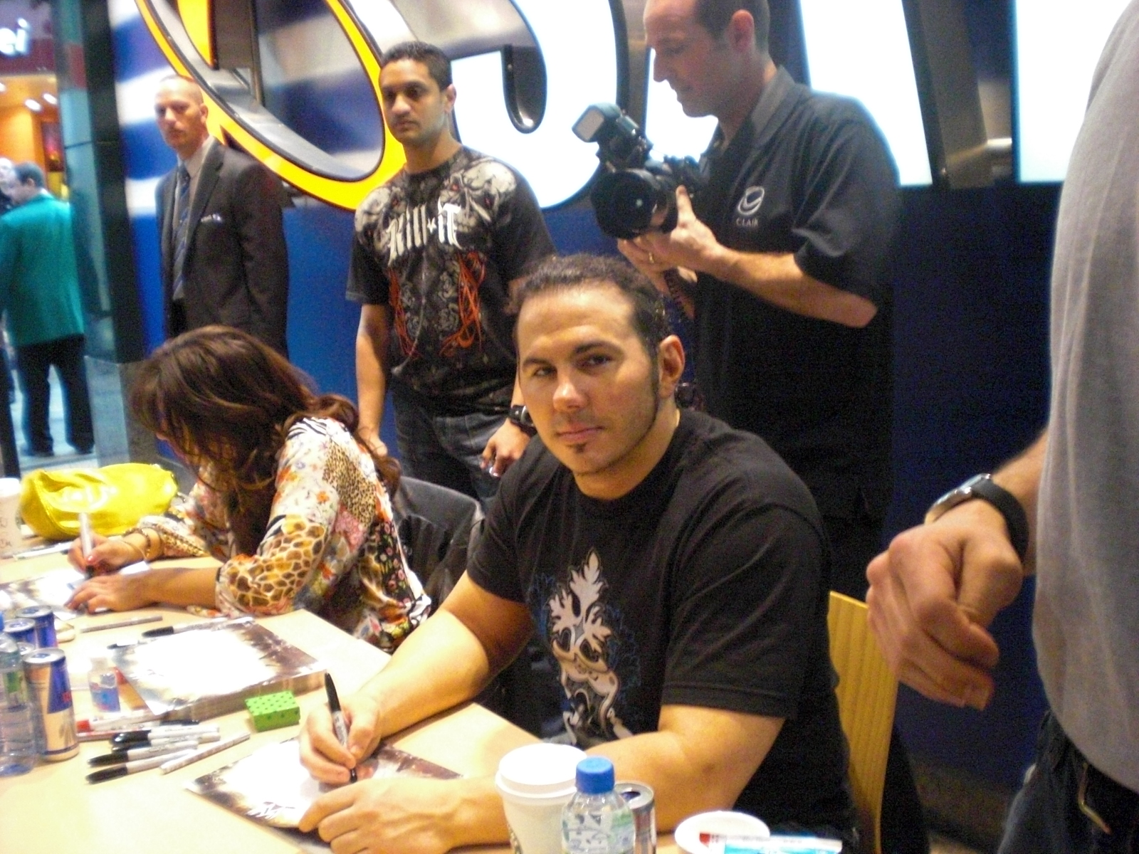 Matt Hardy at an autograph signing